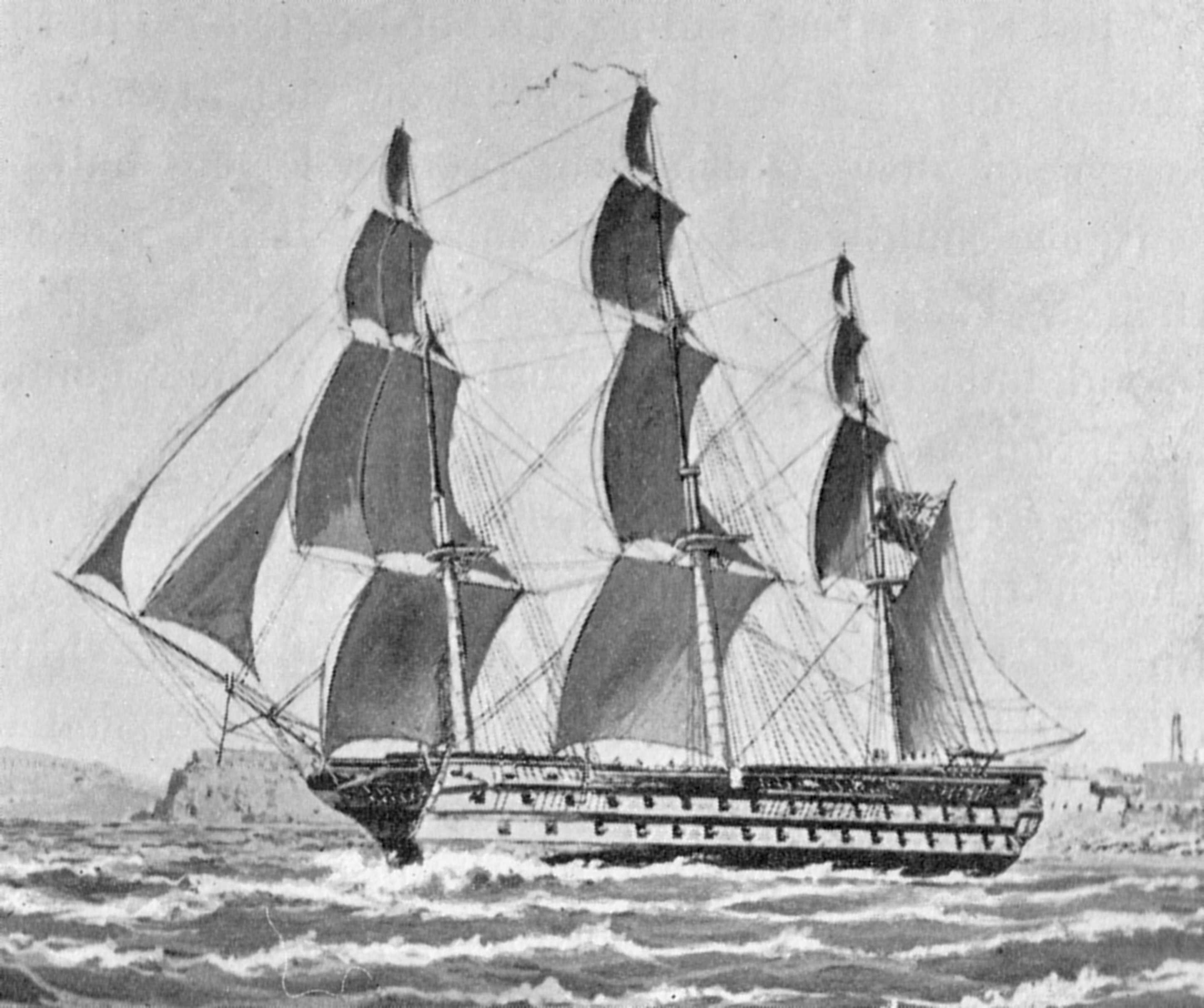 HMS Vengeance, launched 1824 sold 1897. Author and further details not stated, but the background appears similar to other illustrations in the same book showing malta Harbour which was a british naval base.